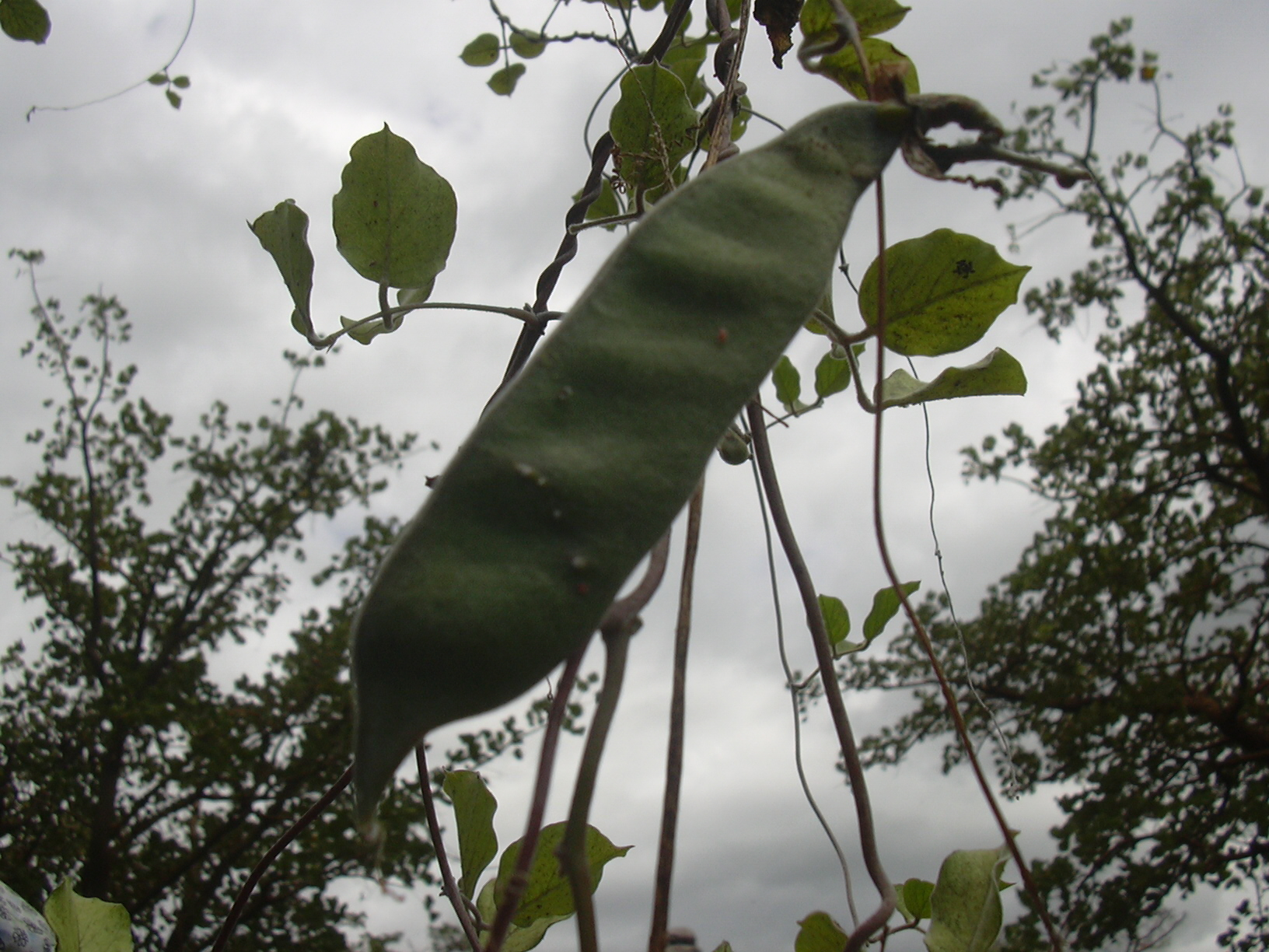 Canavalia pubescens (seedpod). Location: Maui, Puu o Kali